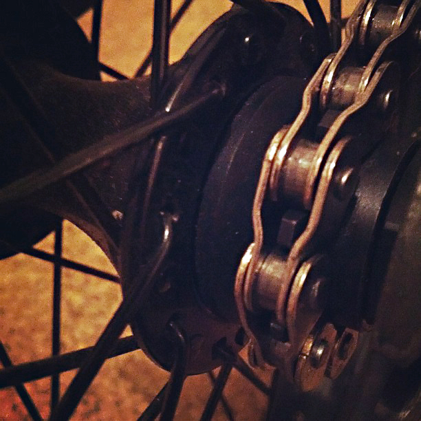 half-link chain